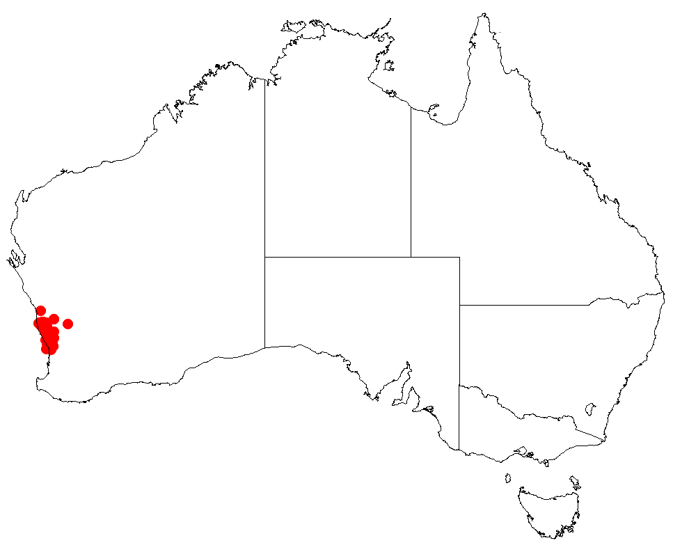 Persoonia comata Occurrence data downloaded from AVH on 30 October 2018 from